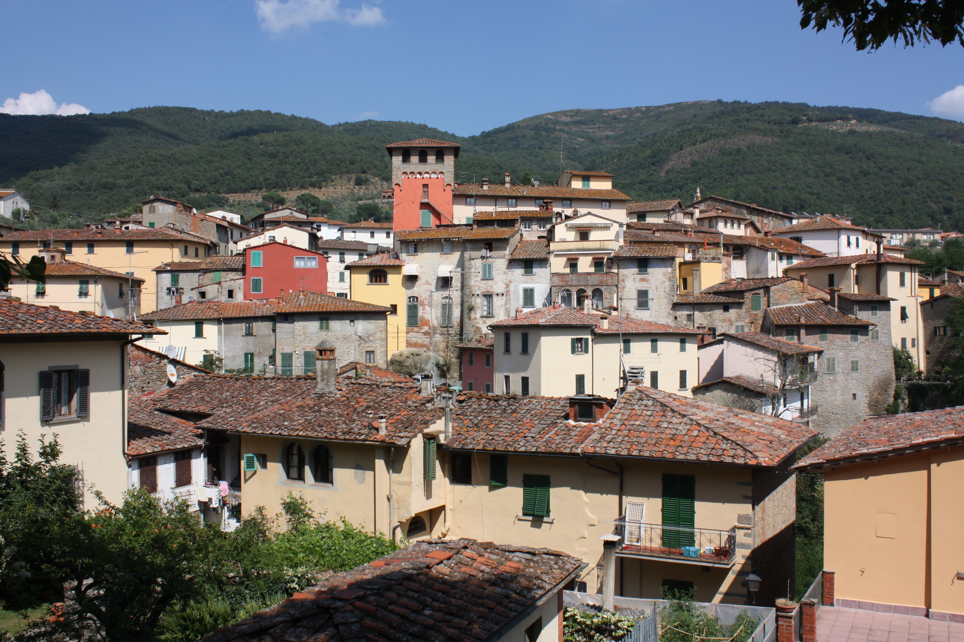 Loro Ciuffenna panorama (Italy, Toscany) 2013